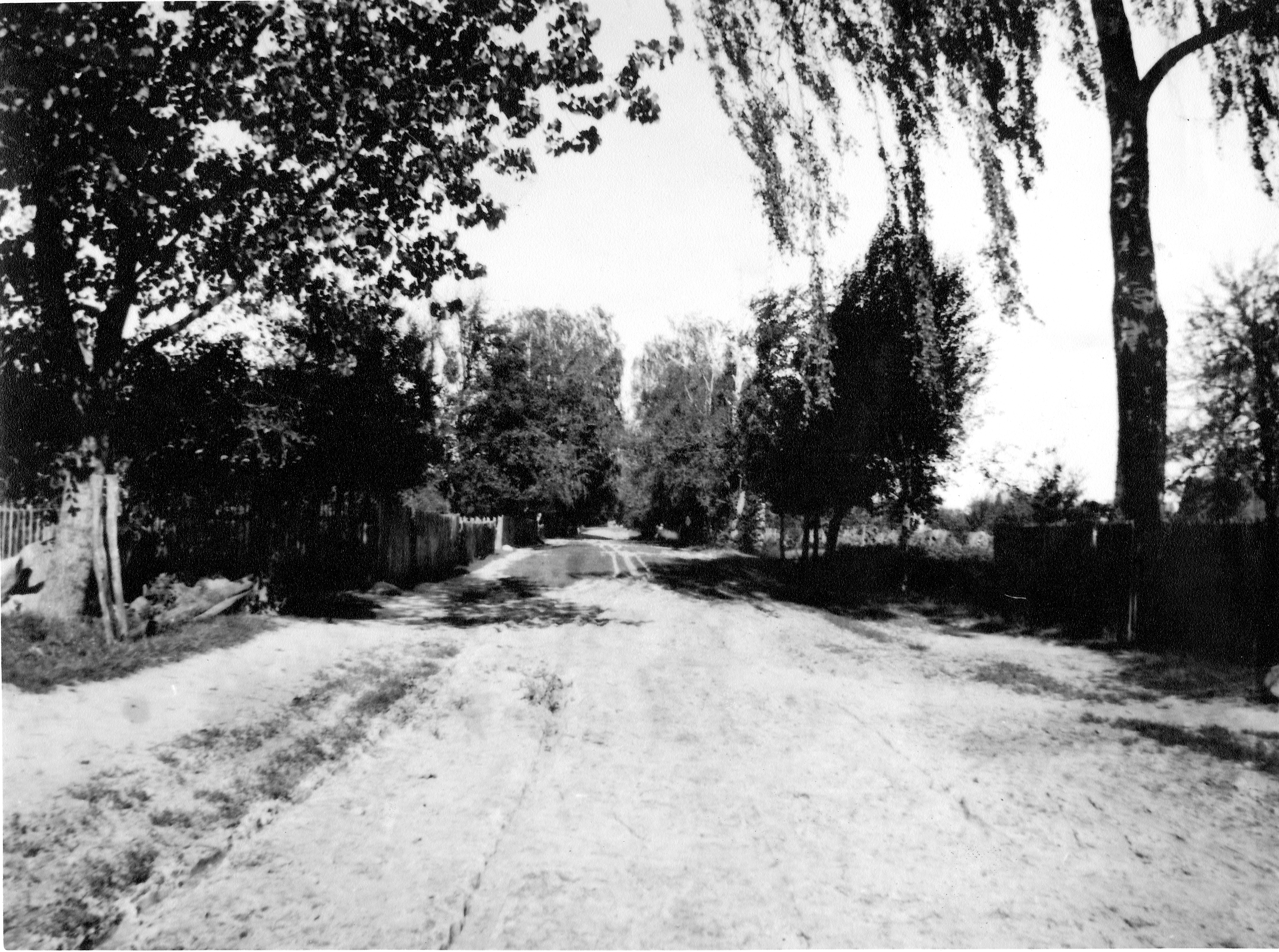 Image of country road in Wola Rafałowska village, Poland, ca 1915